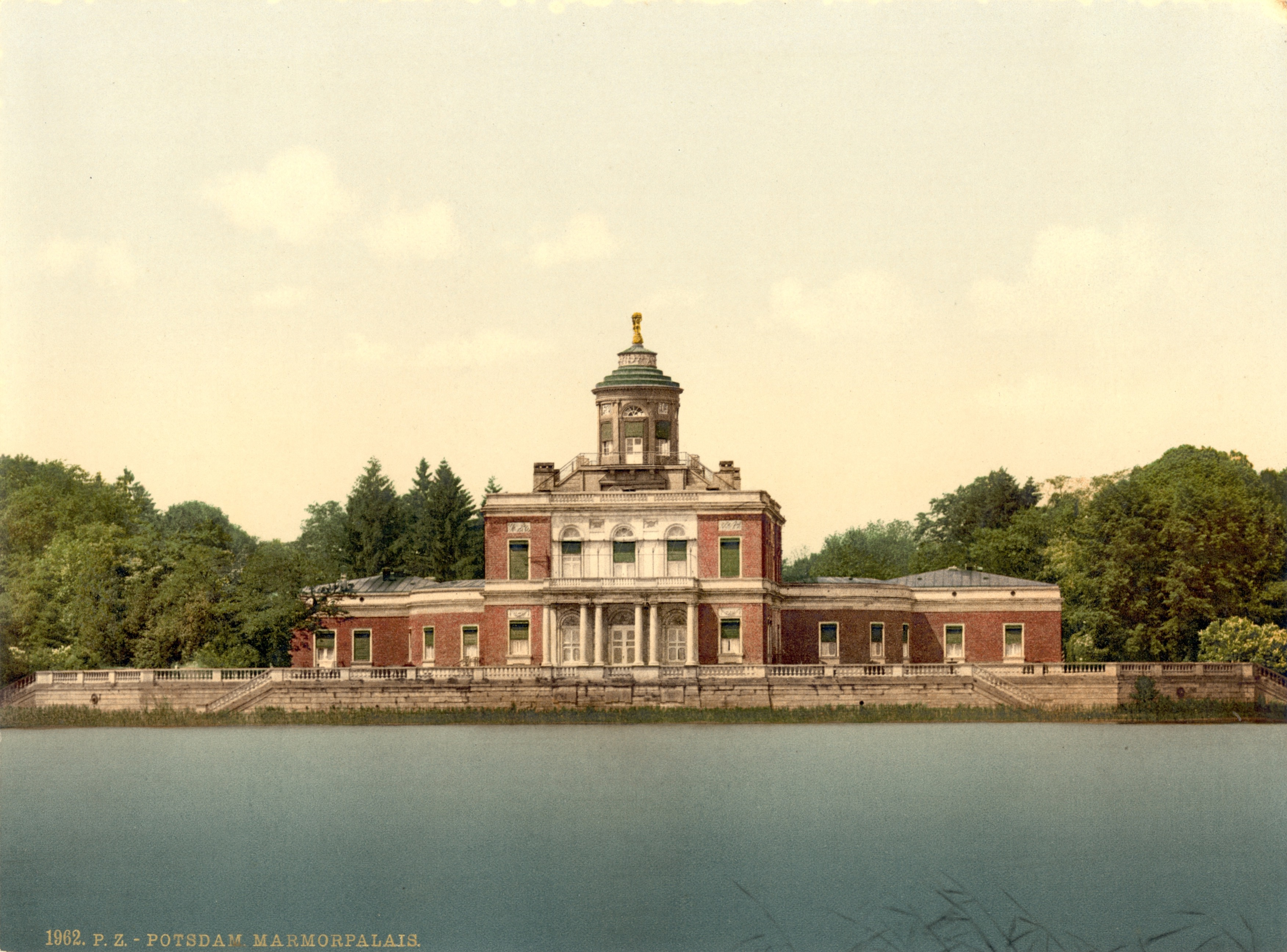 Marmorpalais (Potsdam, Germany)